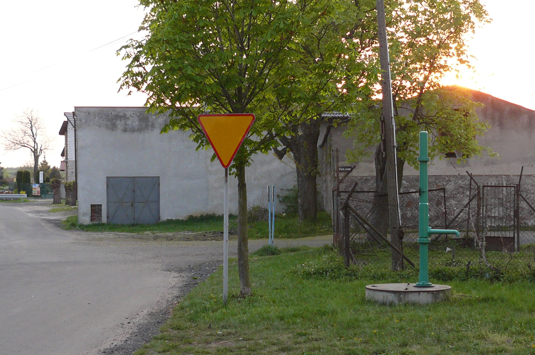 Poznan, Radojewo, Podbialowa Street.